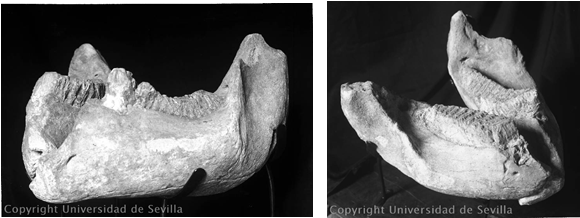 Mandíbula inferior de Palaeoloxodonantiquus (Falconer&Cautley 1847) procedente de Almodóvar del Río (Córdoba), incorporada al Gabinete de Historia Natural de la Universidad de Sevilla por Antonio Machado Núñez, y montada por Salvador Calderón y Arana. Fotografías de Marzo de 1925, por José Mª González-Nandín y Paúl. (Archivo de la Fototeca de la Universidad de Sevilla).